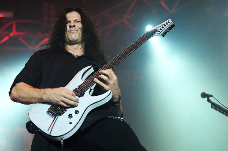 No Sleep Til Festival 2010